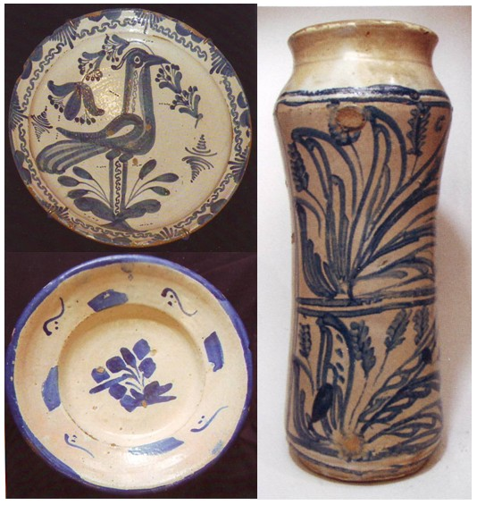 Two plates and a vase (pharmacy jar) of white earthenware and blue of Hellín (Albacete, Spain).